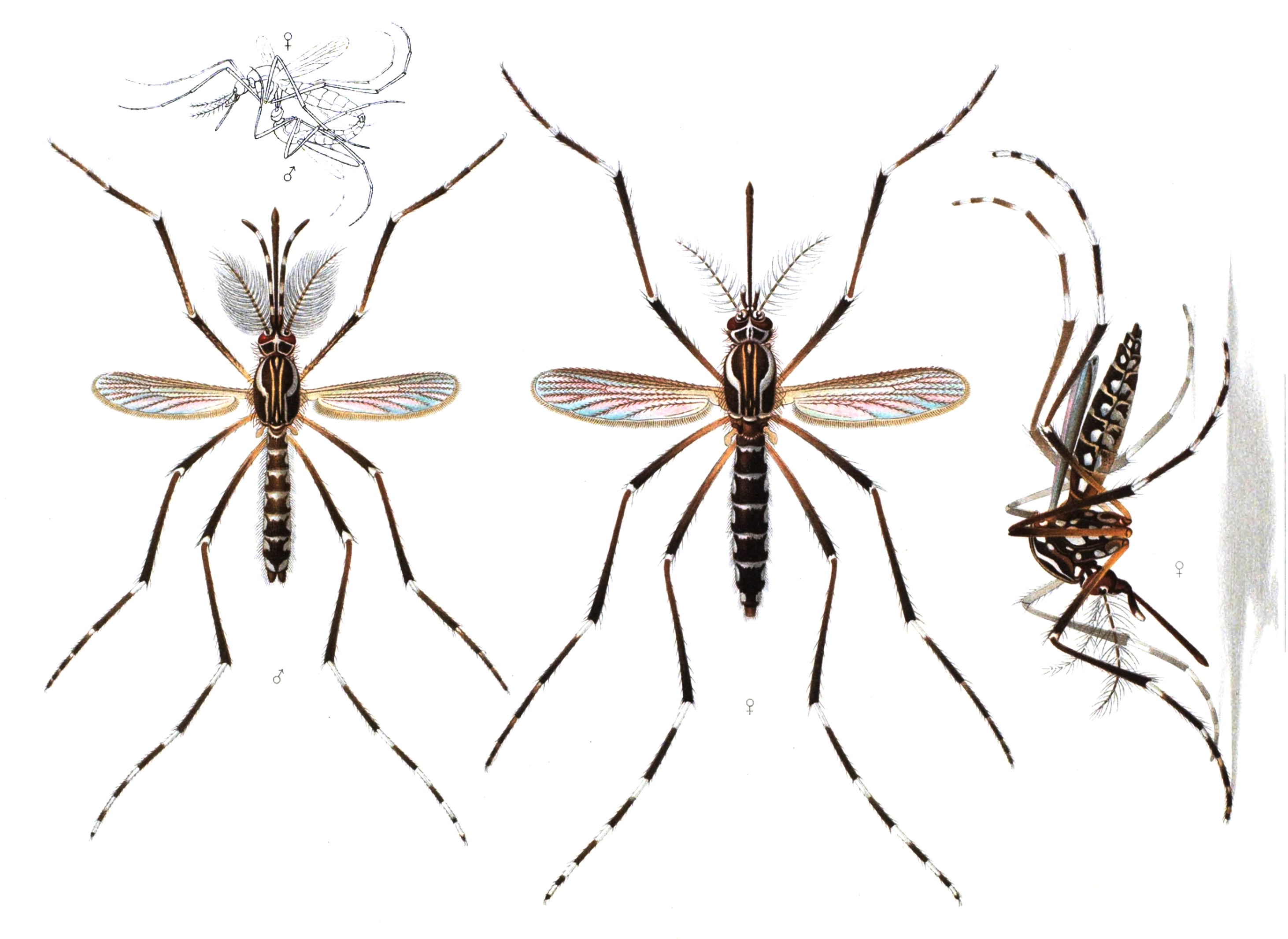 Colour print of the yellow fever or dengue mosquito Aedes aegypti (then called Stegomyia fasciata, today also Stegomyia aegypti). To the left, the male, in the middle and on the right, the female. Above left, a flying pair in copula.